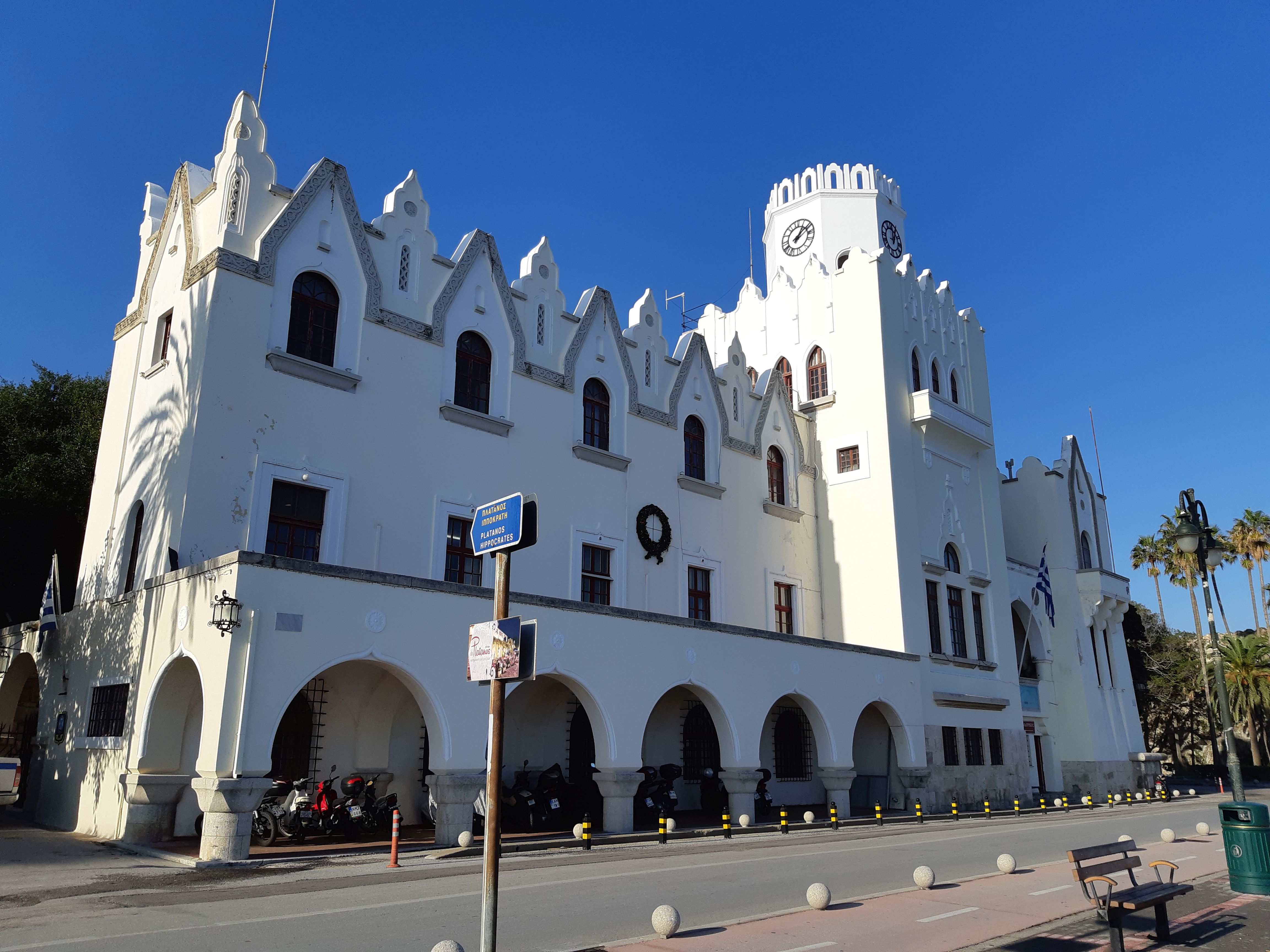 The Governor's Palace of Kos (Greek: ΔΙOΙΚΗΤΗΡΙO, also: Pallazzo del Governo, Eastern Coastal Building) is located in the city of Kos on the island of Kos (Dodecanese) Architect Florestano Di Fausto planned, built from 1927 to 1930 and today houses the police and the court of Kos as well as administrative units of the island of Kos.